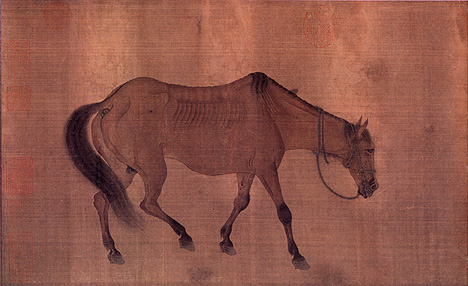 Detail of Two Horses by Chinese artist and Yuan Dynasty loyalist Ren Renfa; a similar painting is Gong Kai's Emaciated Horse, although Gong Kai's Emaciated Horse contains subtle message of political protest against the Yuan Dynasty, while Ren's painting here simply represents a stalwart official who dutifully serves office, takes nothing for himself, and is void of corruption. Handscroll, ink and colors on silk, 28.8 x 143.7 cm.